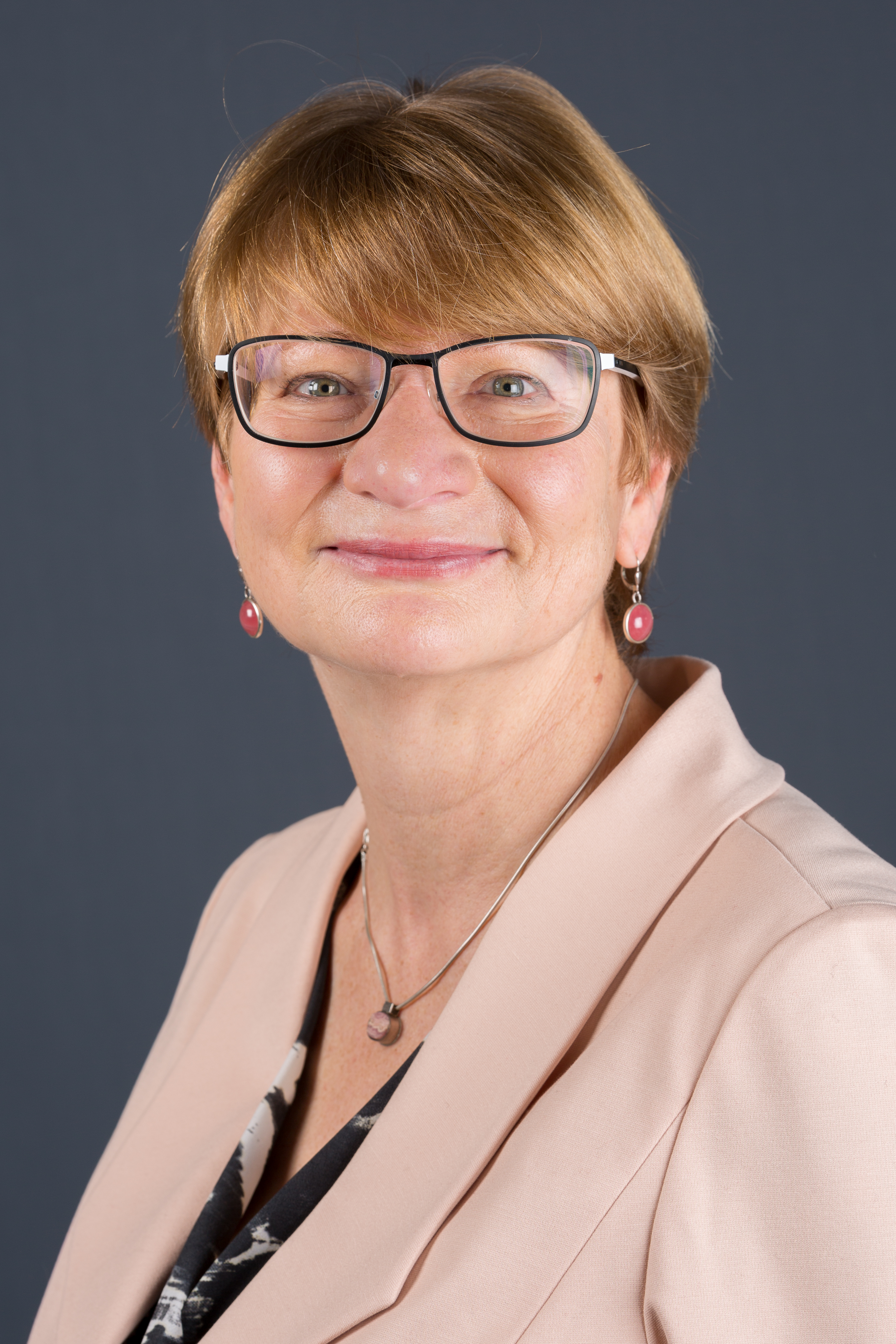 Jana Pinka, Die Linke, Member of the Parliament of the Free State of Saxony